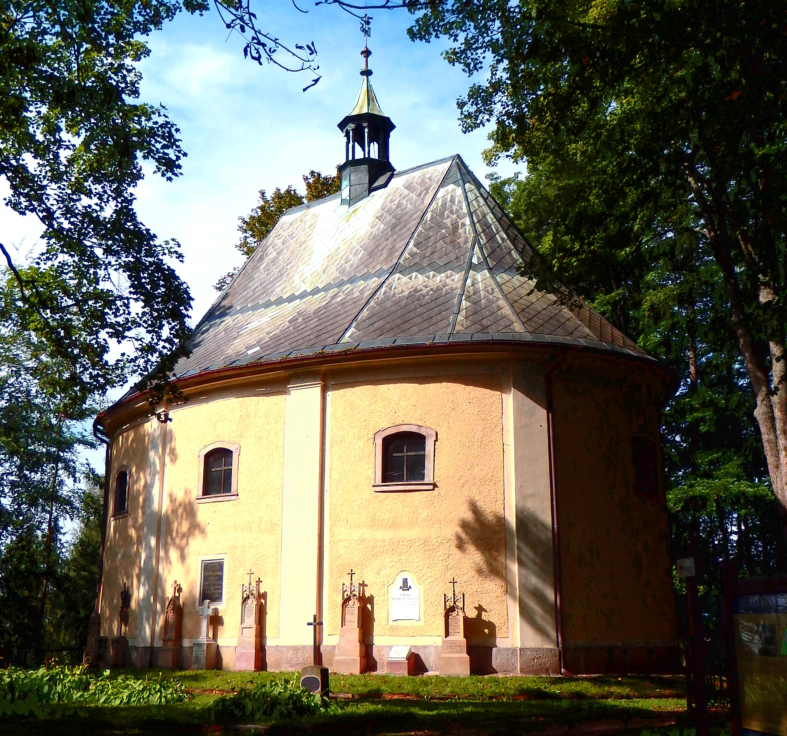 Chapel of Saint John in Trutnov (Jánský vrch)